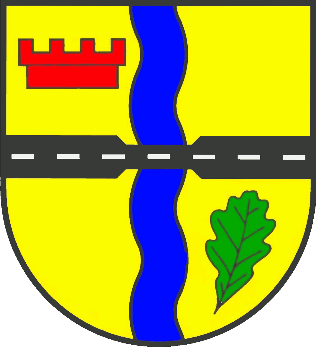 Coat of arms of the municipality Treia in Schleswig-Holstein, Germany.